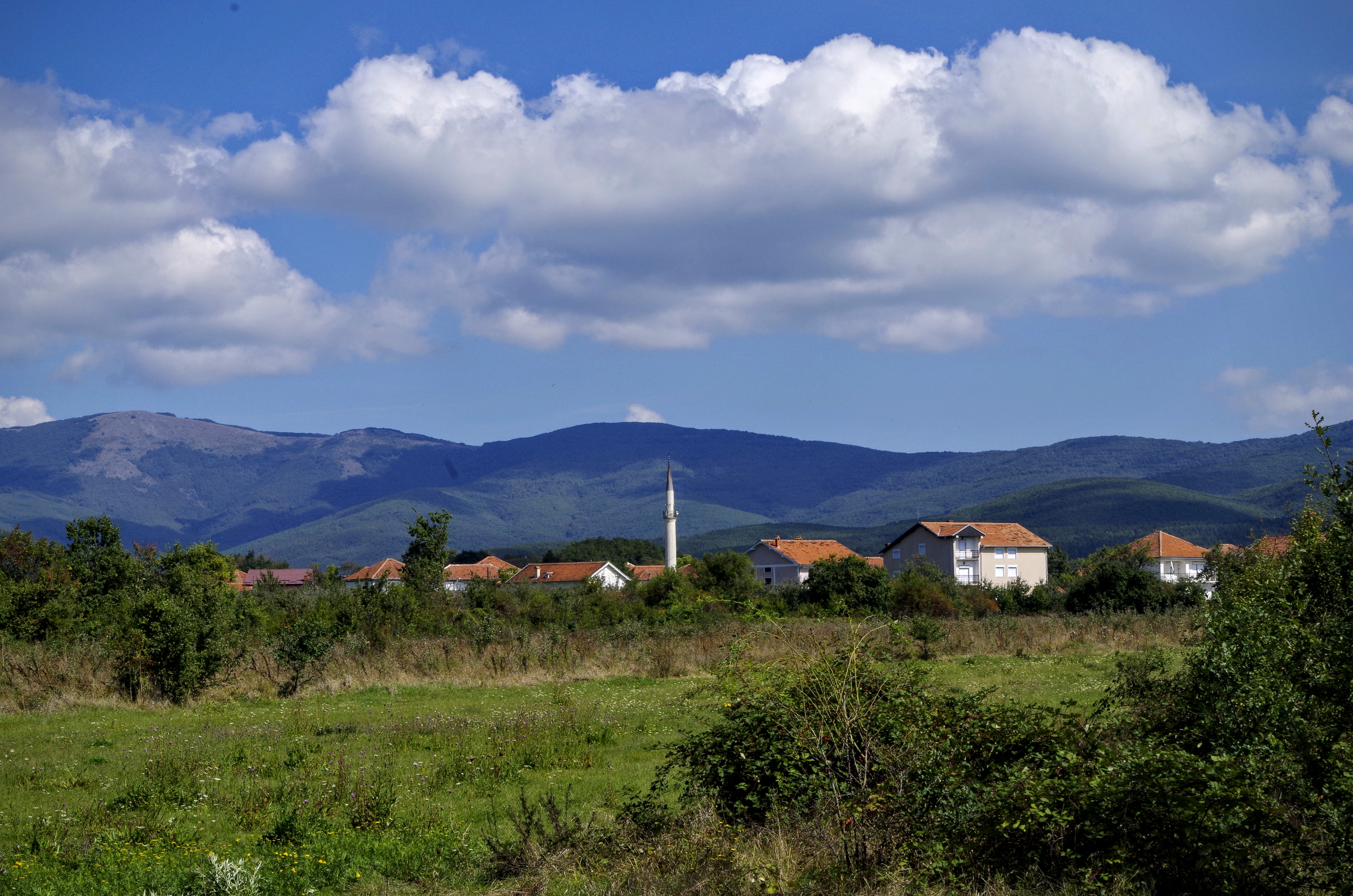 View of the village Kozjak